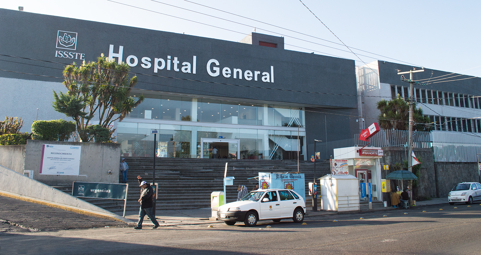 ISSSTE, ciudad de Tlaxcala.